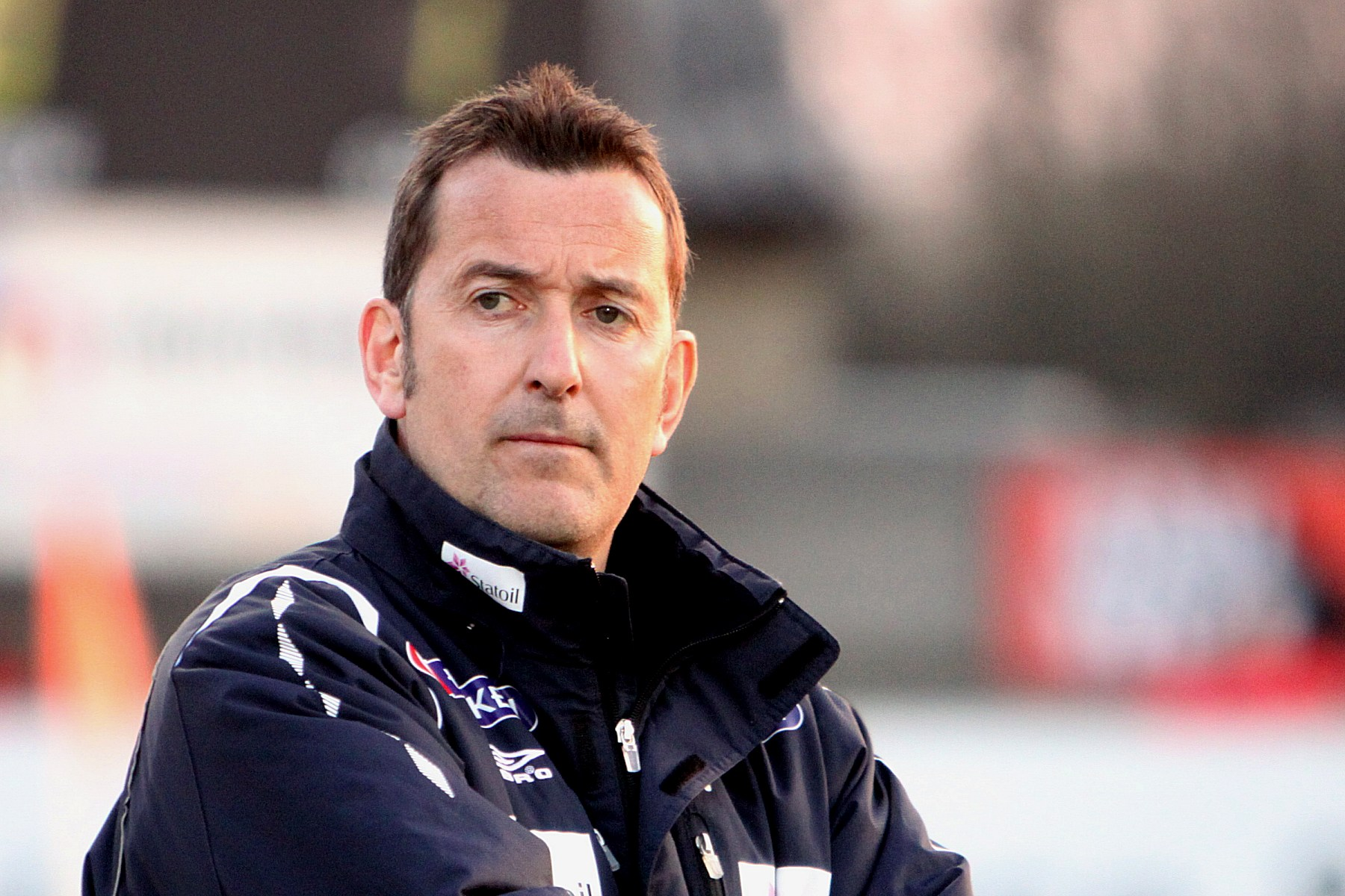 Per Joar Hansen, Coach of the Norway national under-21 football team (2011-03-29)